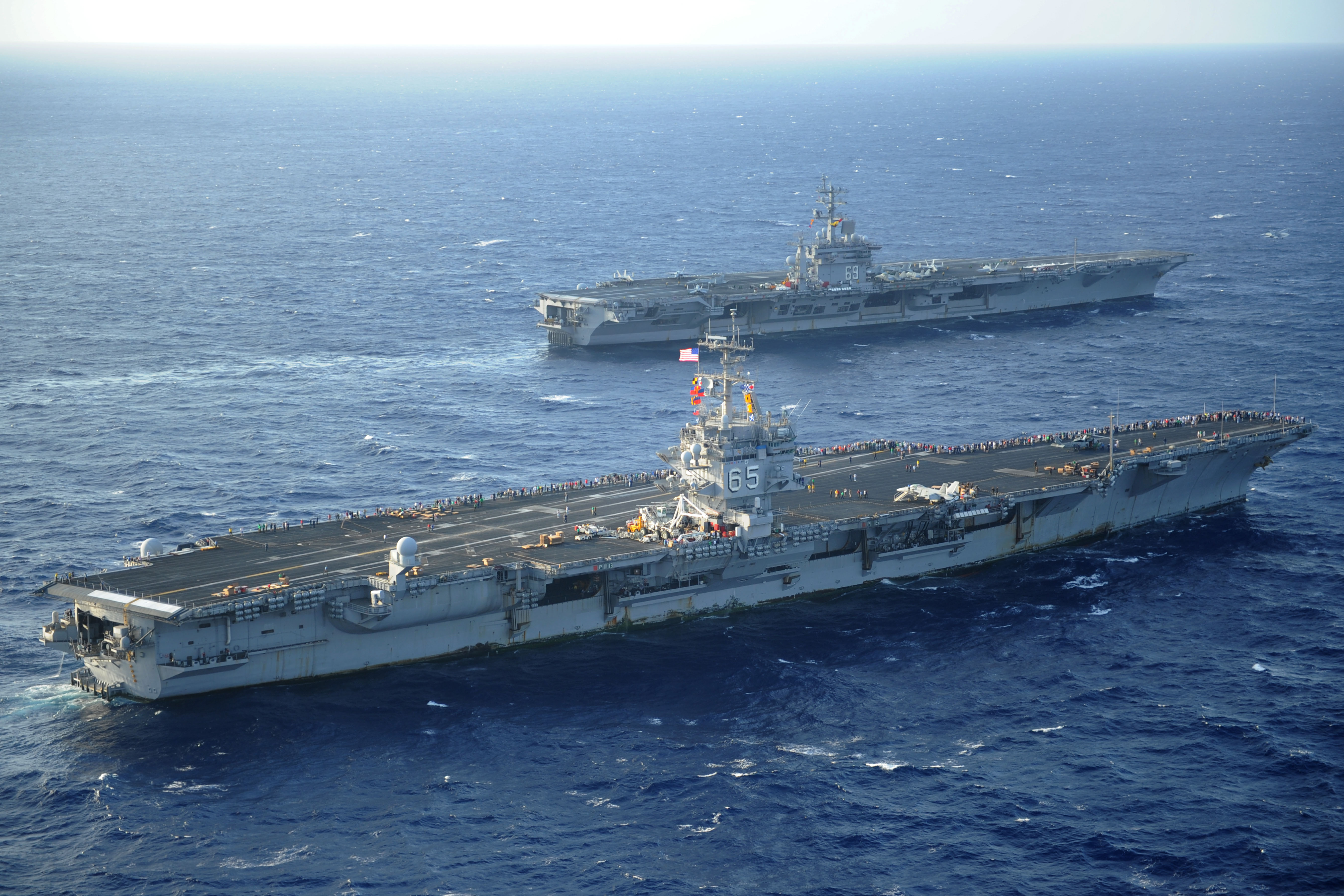 ATLANTIC OCEAN (July 14, 2011) The aircraft carriers USS Enterprise (CVN 65) and USS Dwight D. Eisenhower (CVN 69) pass as Enterprise returns to homeport after completing a six-month deployment to the U.S. 5th and 6t Fleet areas of responsibility. Dwight D. Eisenhower is underway conducting carrier qualifications. (U.S. Navy photo by Mass Communication Specialist 3rd Class Shonna L. Cunningham/Released)